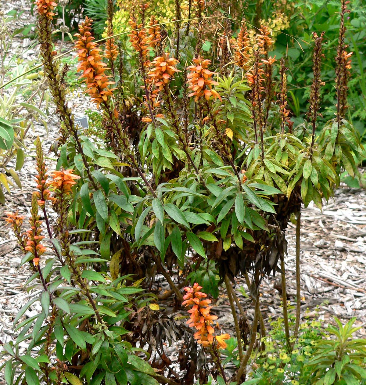 Photo of Digitalis canariensis at the San Francisco Botanical Garden